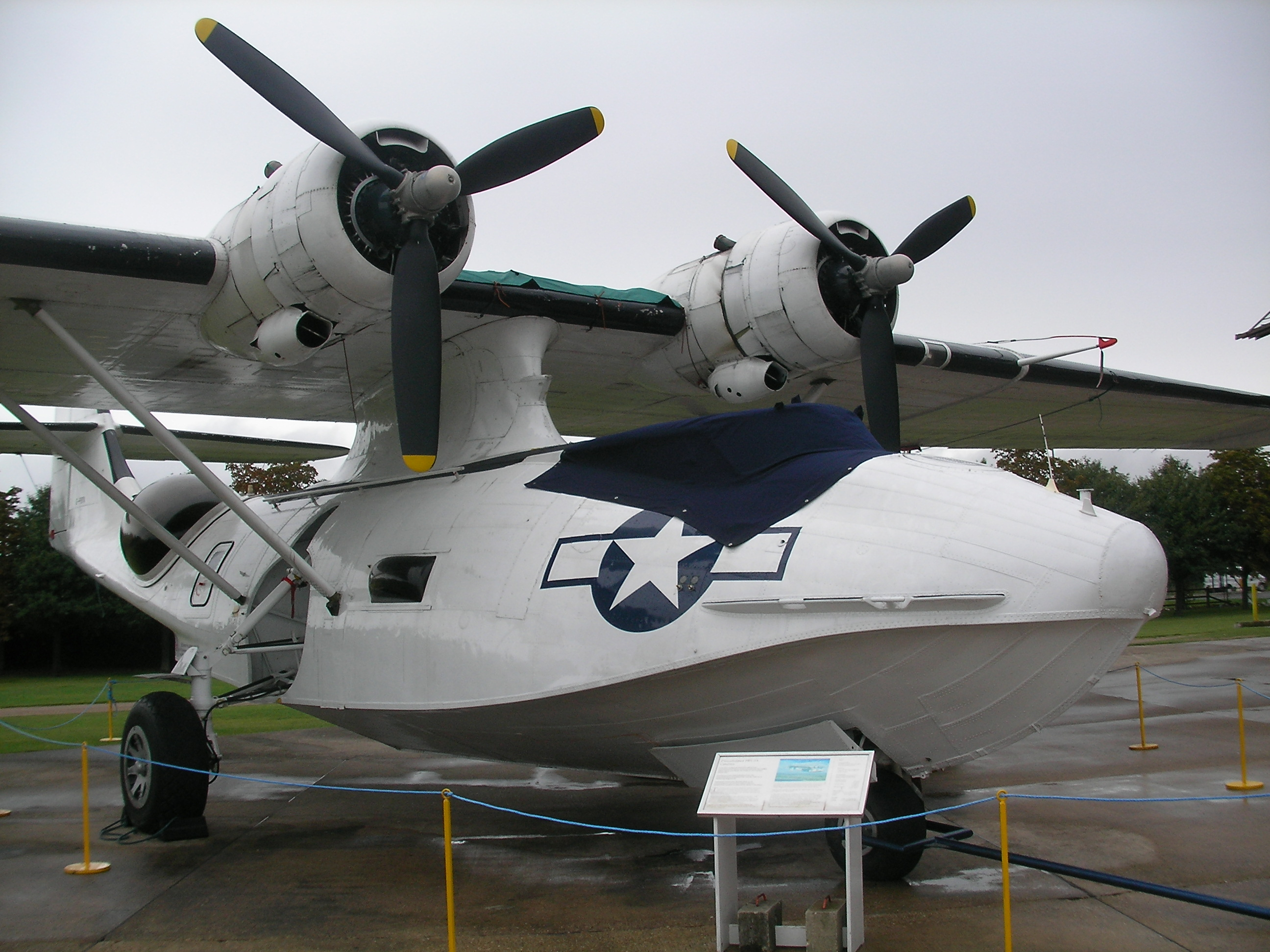 Duxford's magnificent Catalina, stored outdoors.